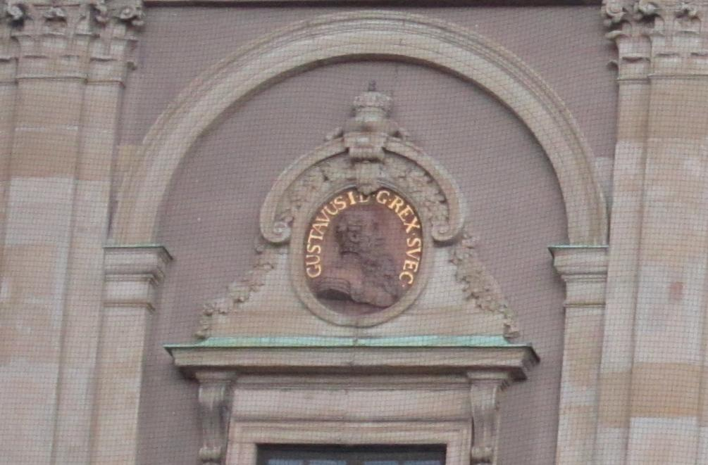 King Gustav I of Sweden, as released by image creator Ristesson HistoryPlace: Stockholm Palace, Sweden